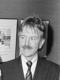 Finnish caricaturist Terho Ovaska (1940–2015)